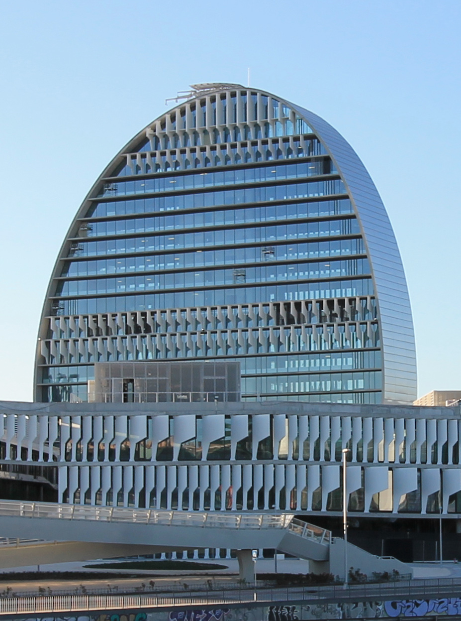 Façade of BBVA head offices (Madrid, Spain).